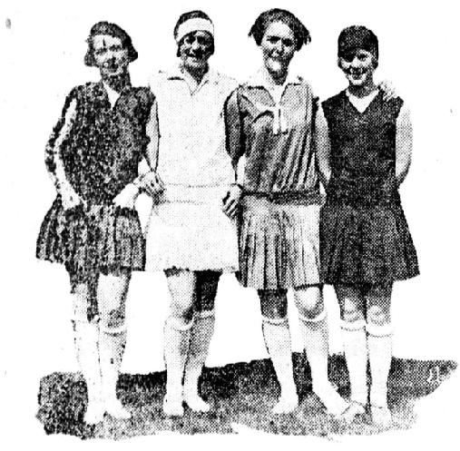 Four girls in sporting outfits ready to play football. The file is a facsimile from a newspaper article. Original caption: "De fire kapteiner og centerforwards, fra ventre: Helga Heidenreich, Signe Aars-Johansen, Berit Sverre og Sonja Henie"